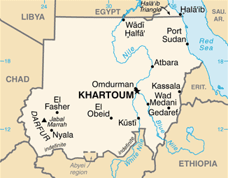 Sudan map from CIA World Factbook, converted from original GIF format (2011 version showing South Sudan)